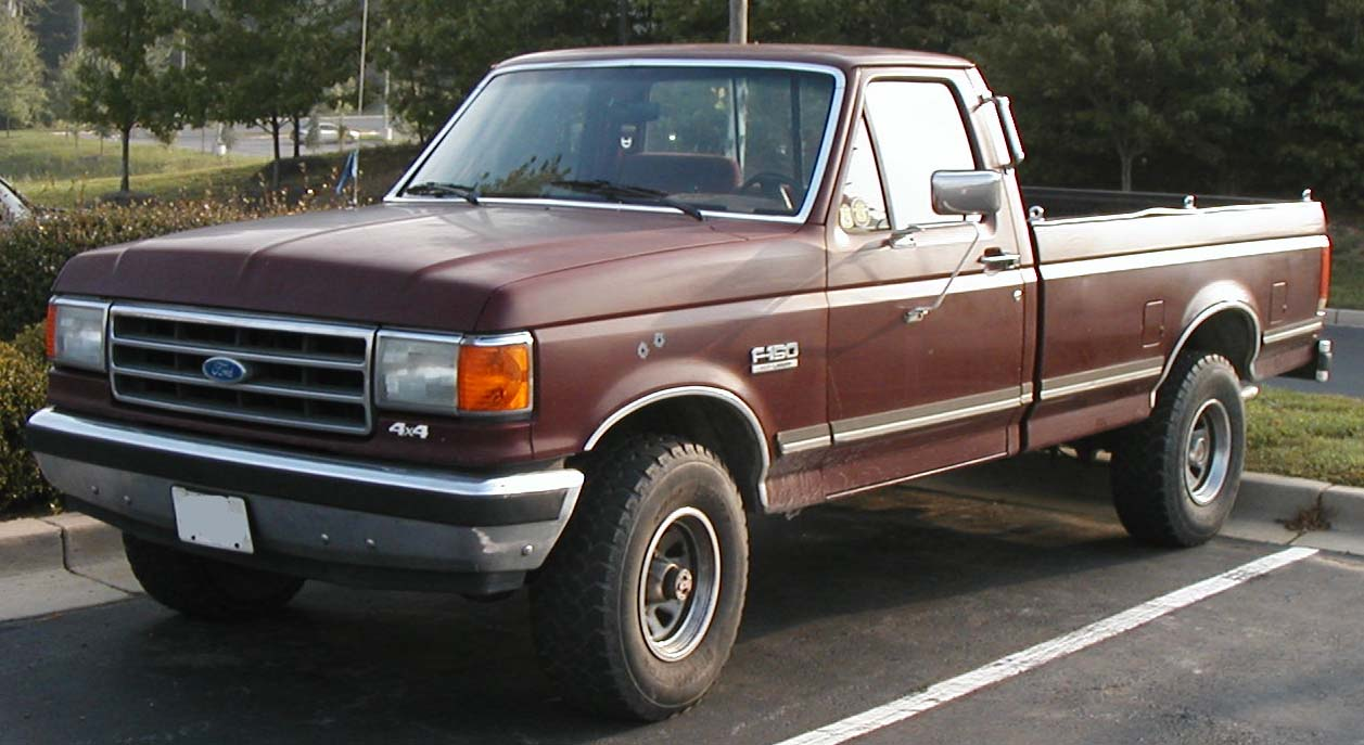 1987-1991 Ford F-Series XLT 4WD regular cab photographed in USA.